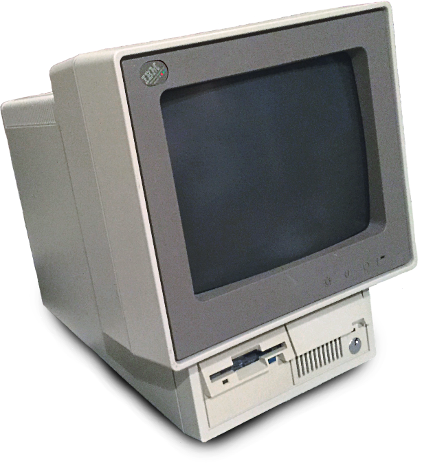 An angled shot of the Personal System/2 Model 25 type 004.